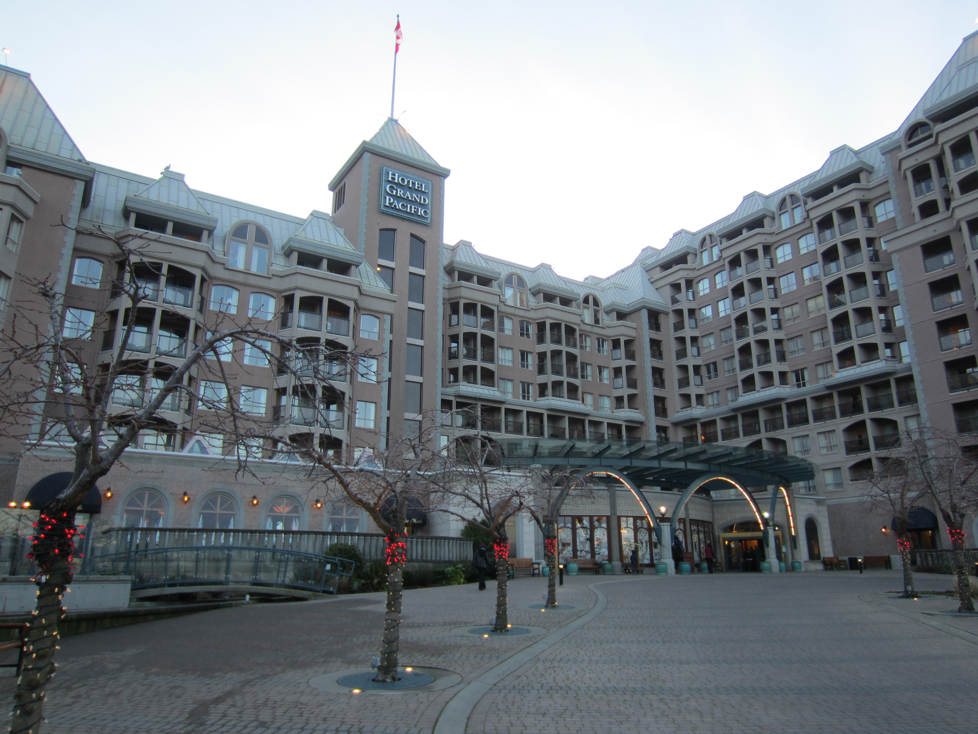 Victoria, British Columbia, Canada in December 2012